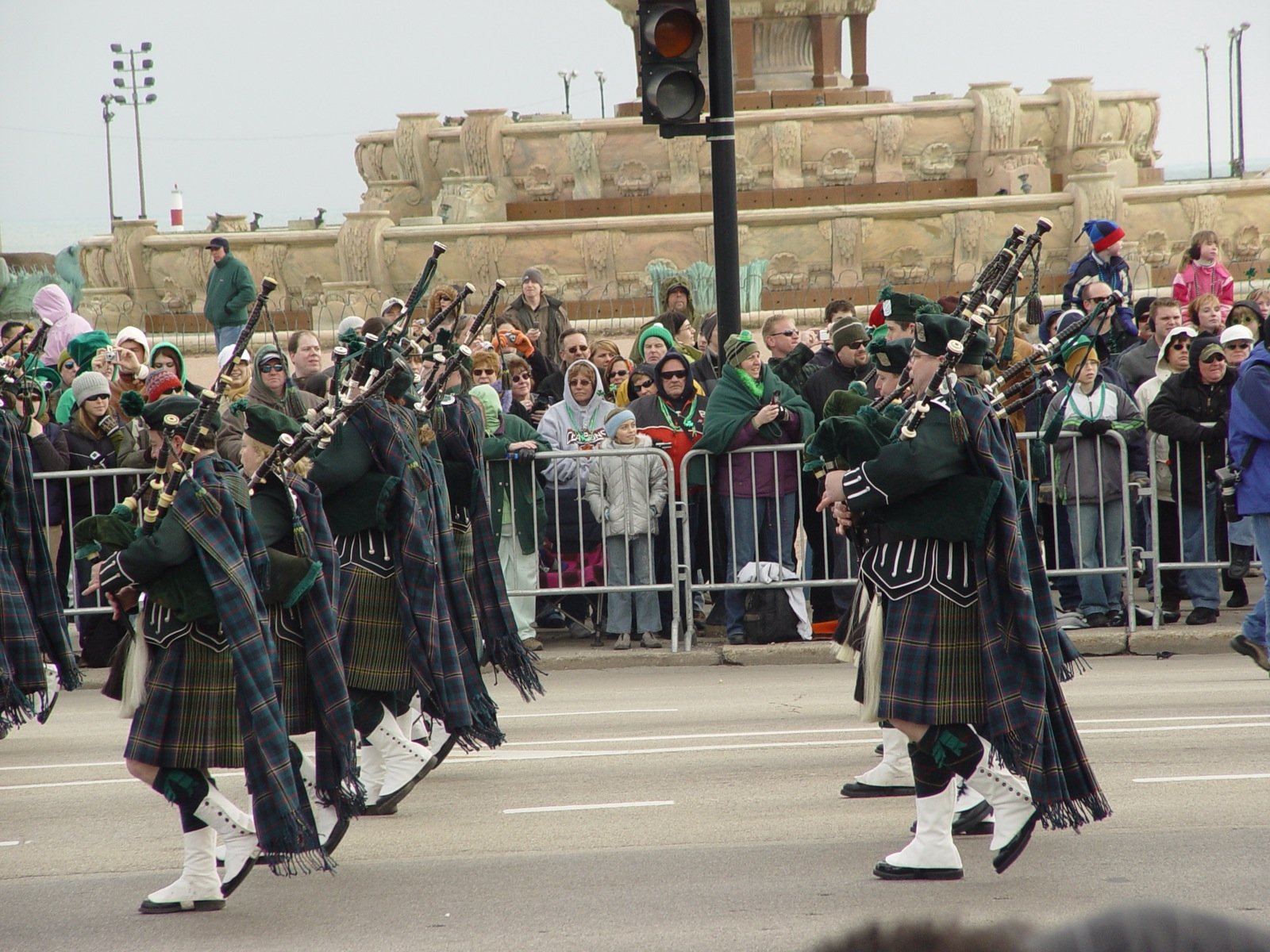 St. Patrick's Day Parade 2007, Chicago.